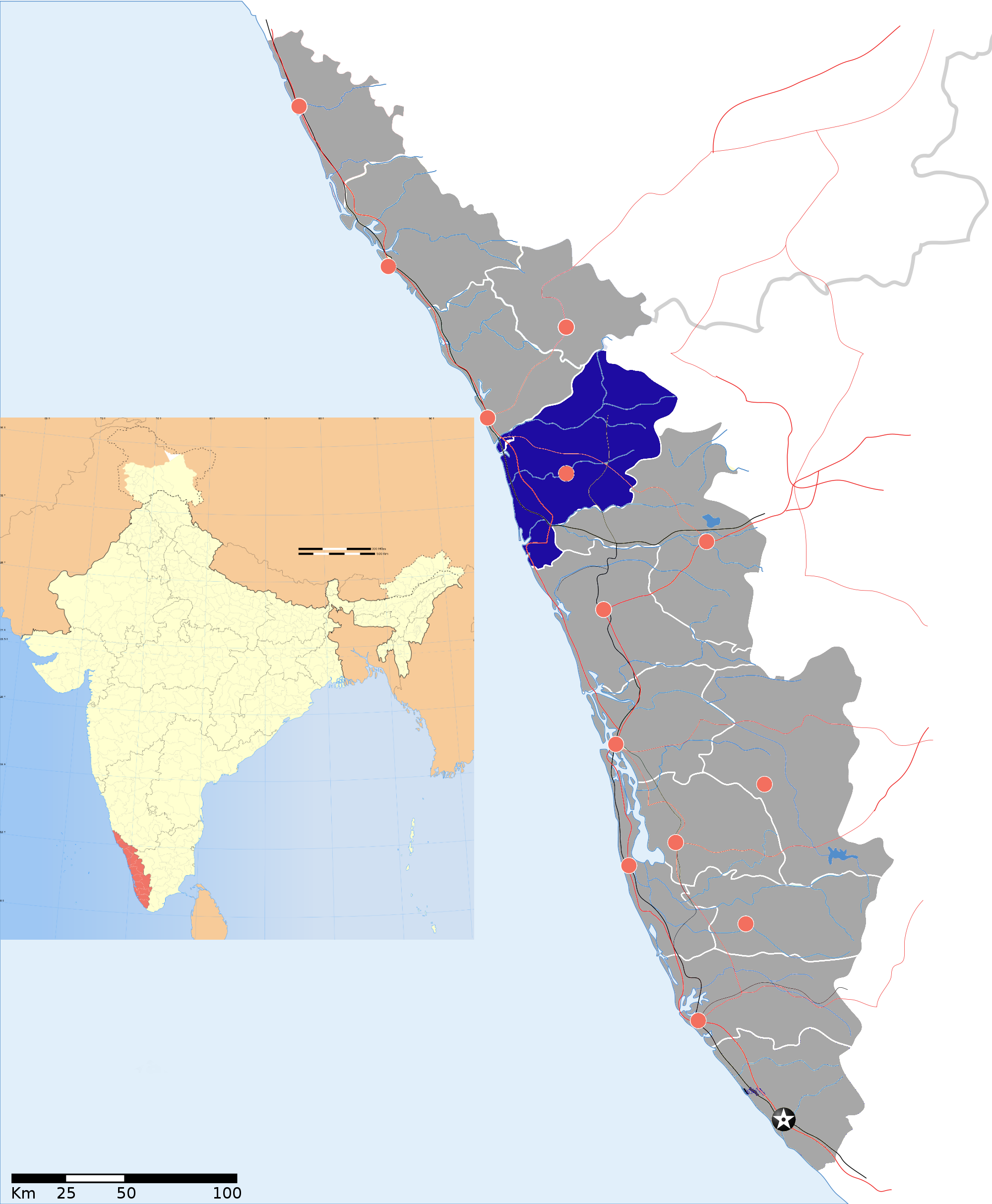 Location of Kerala in India in Map of India and Location of Malappuram District in map of Kerala